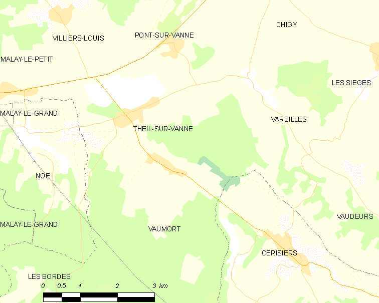 Map of French municipality Theil-sur-Vanne